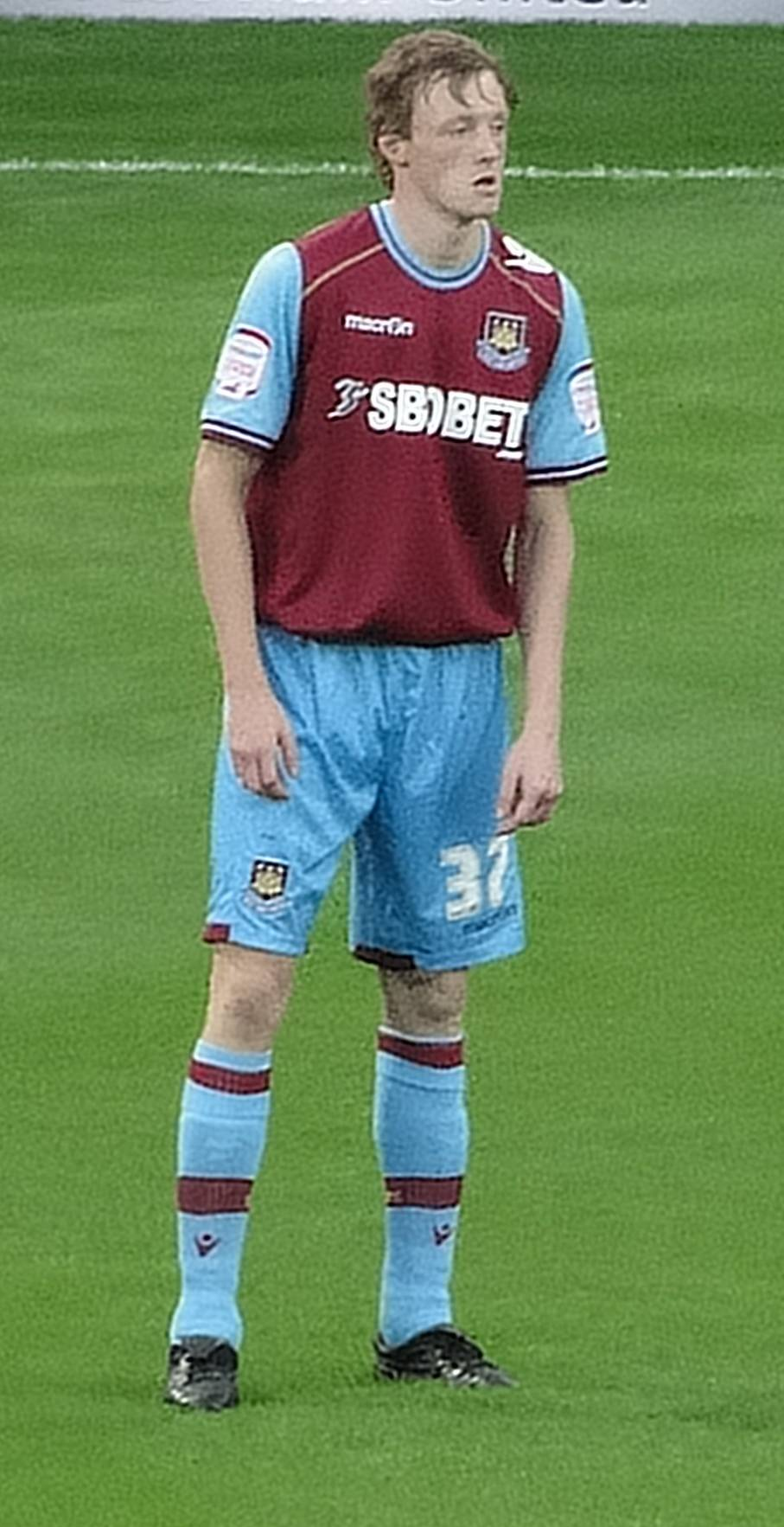 West Ham United defender, Callum McNaughton, in his debut game against Aldershot Town